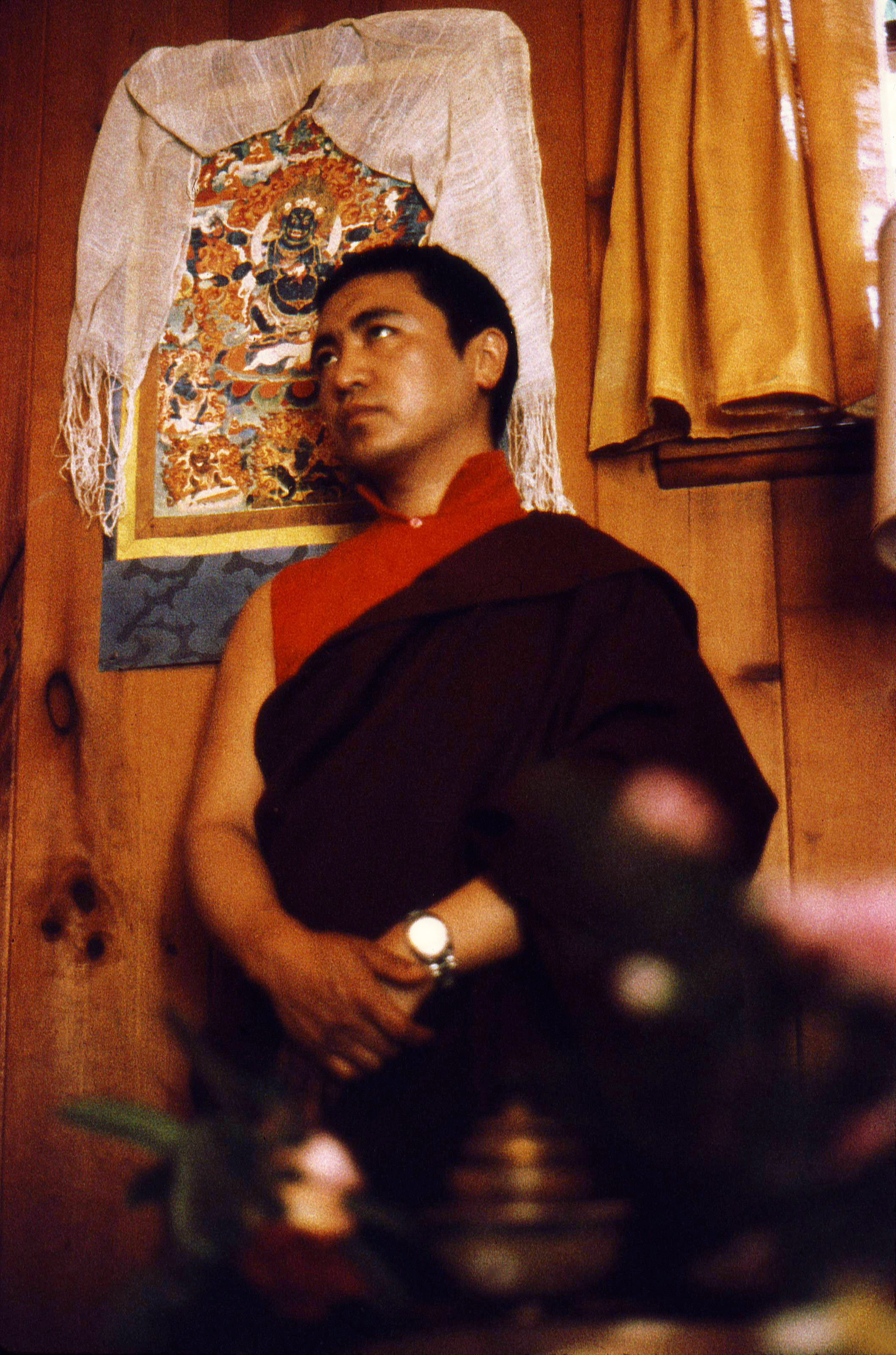 Tour of HH Dilgo Khyentse Rinpoche at Sakya Ward St Center Seattle Washington USA 1976 The old Sakya Center became Sakya Monastery of Tibetan Buddhism, located in the Greenwood neighborhood of Seattle.